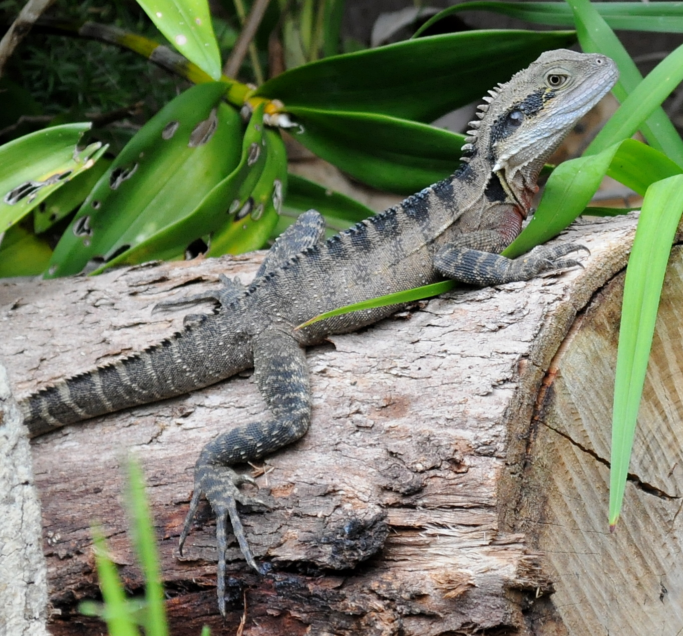 Physignathus lesueurii lesueurii, the Eastern Water Dragon. Taken in suburban Sydney.